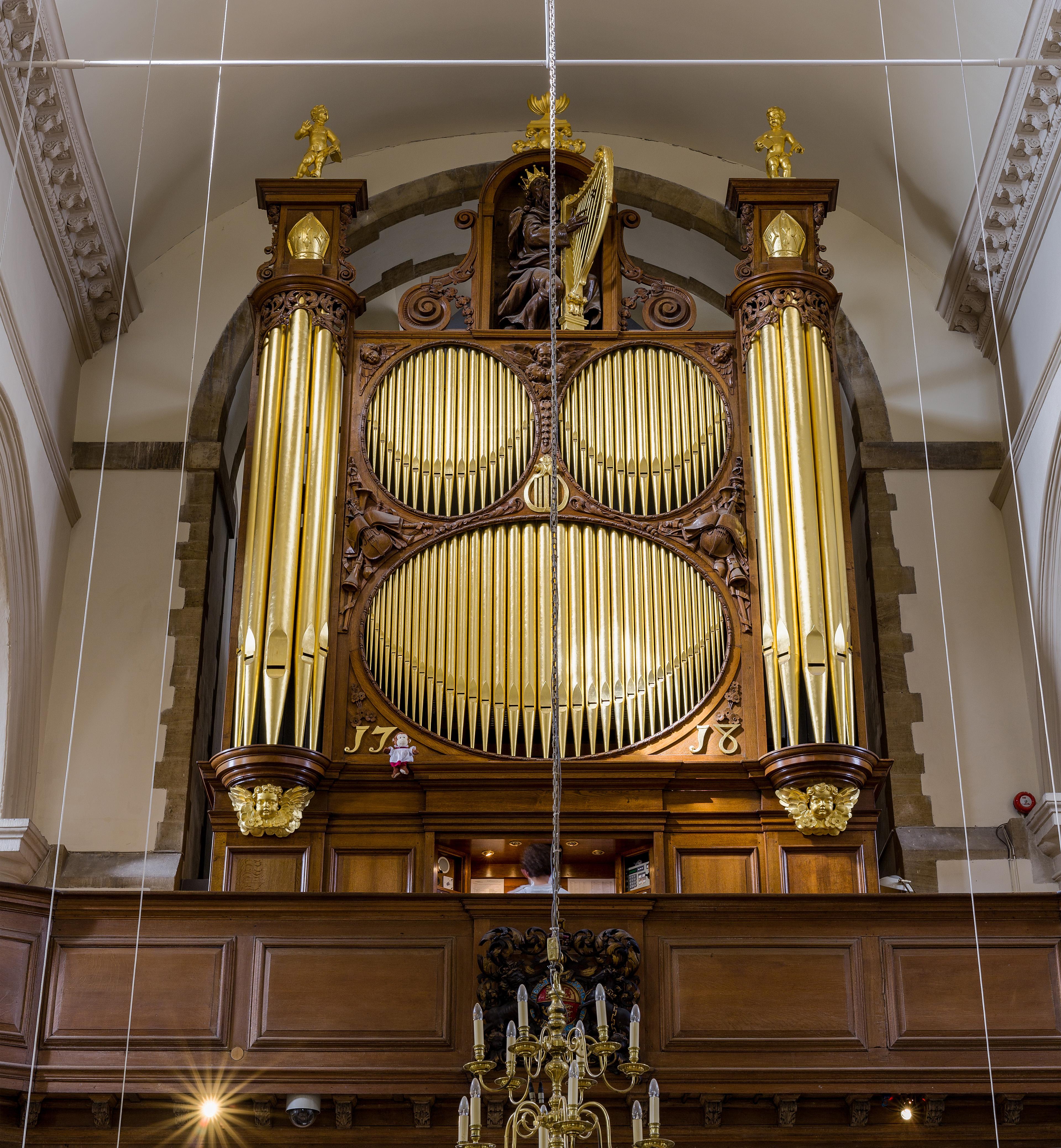 The Nicholson Organ of Portsmouth Cathedral in Hampshire, England.